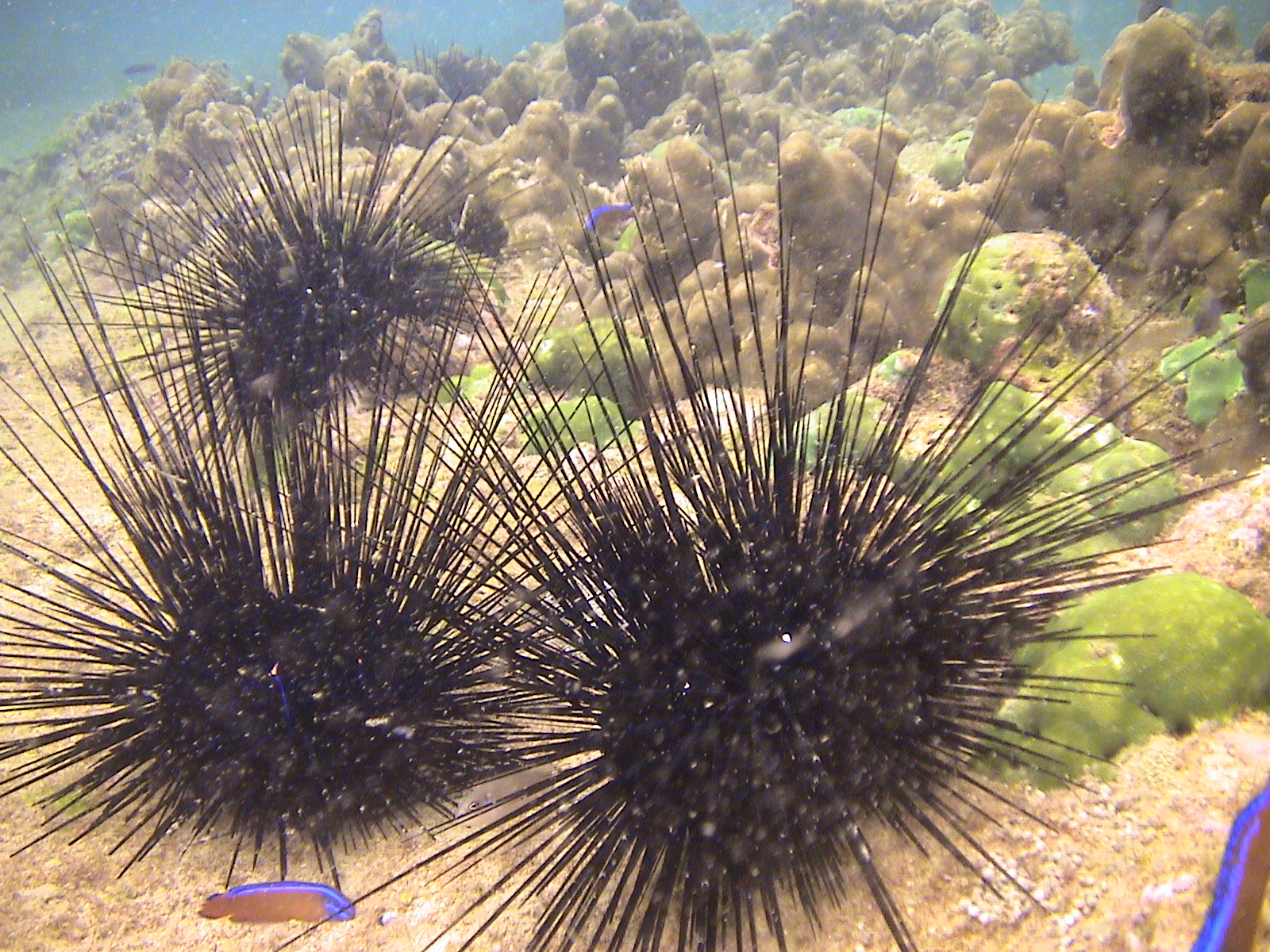 Sea Urchins (probably :Category:|Diadema savignyi|Diadema savignyi ) enjoying sunbathing